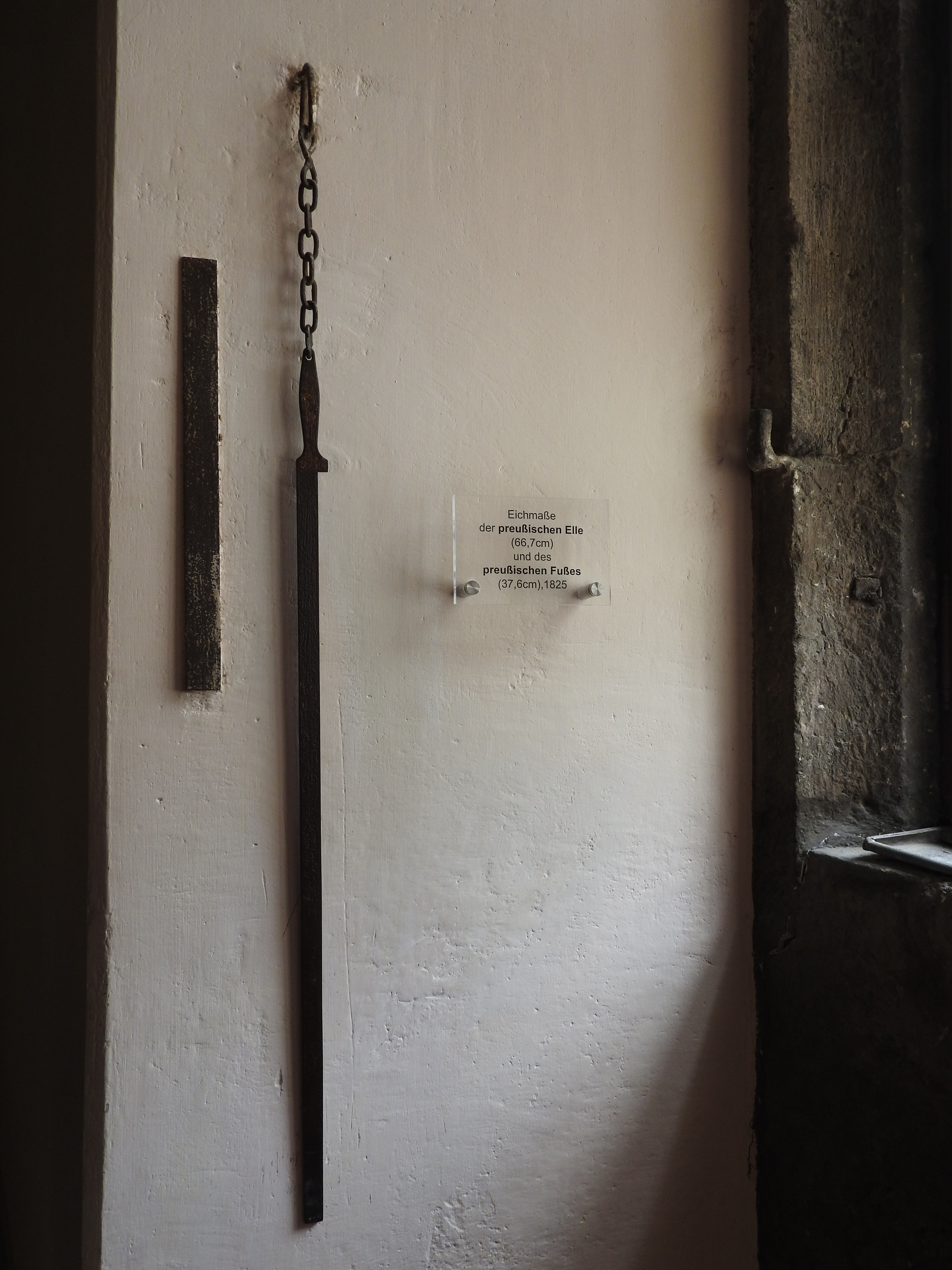 Yardstick in the town hall of Mühlhausen, Thuringia, Germany